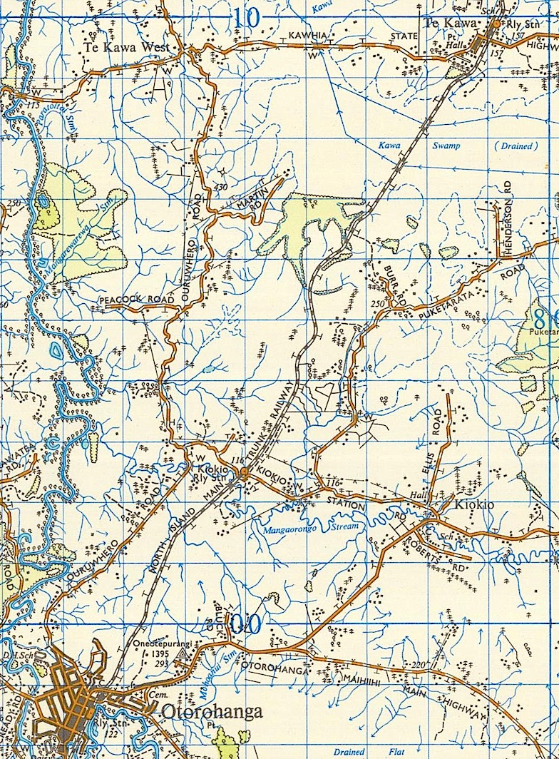 1955 one inch to one mile map (Source- Land Information New Zealand (LINZ) and licensed by LINZ for re-use under the Creative Commons Attribution 3.0 New Zealand licence)